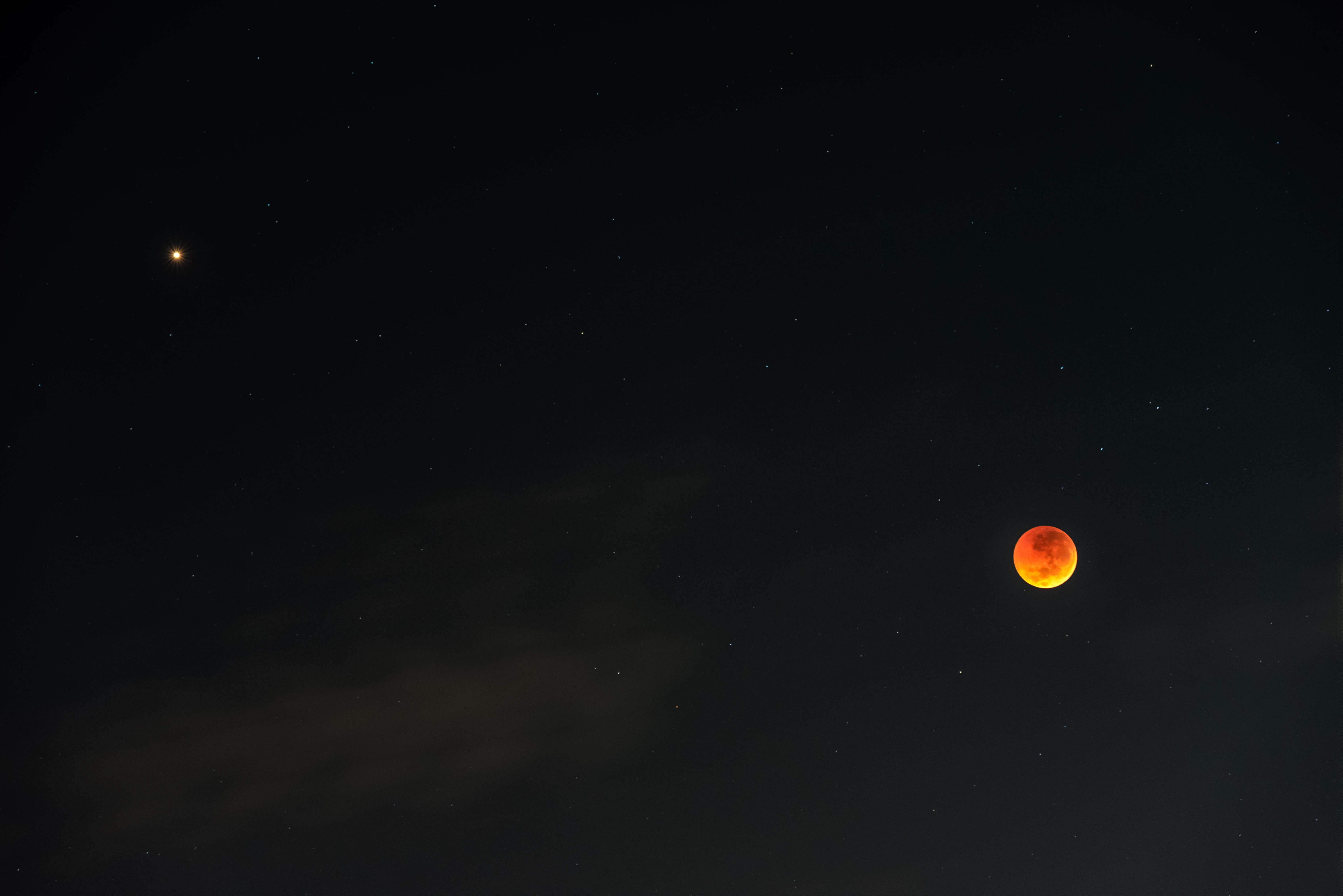 The sharp sun rays reflected from planet Mars and the eclipsed Moon in July 2018 make a red pair in Melbourne's western sky.